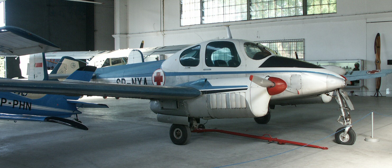 Let L-200A Morava - Czechoslovakian utility aircraft in the Polish air ambulance service markings at the Polish Aviation Museum in Kraków